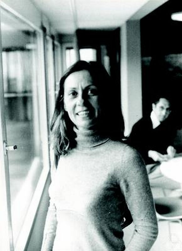 Alexandra Ionescu Tulcea (Alexandra Bellow), Oberwolfach 1975